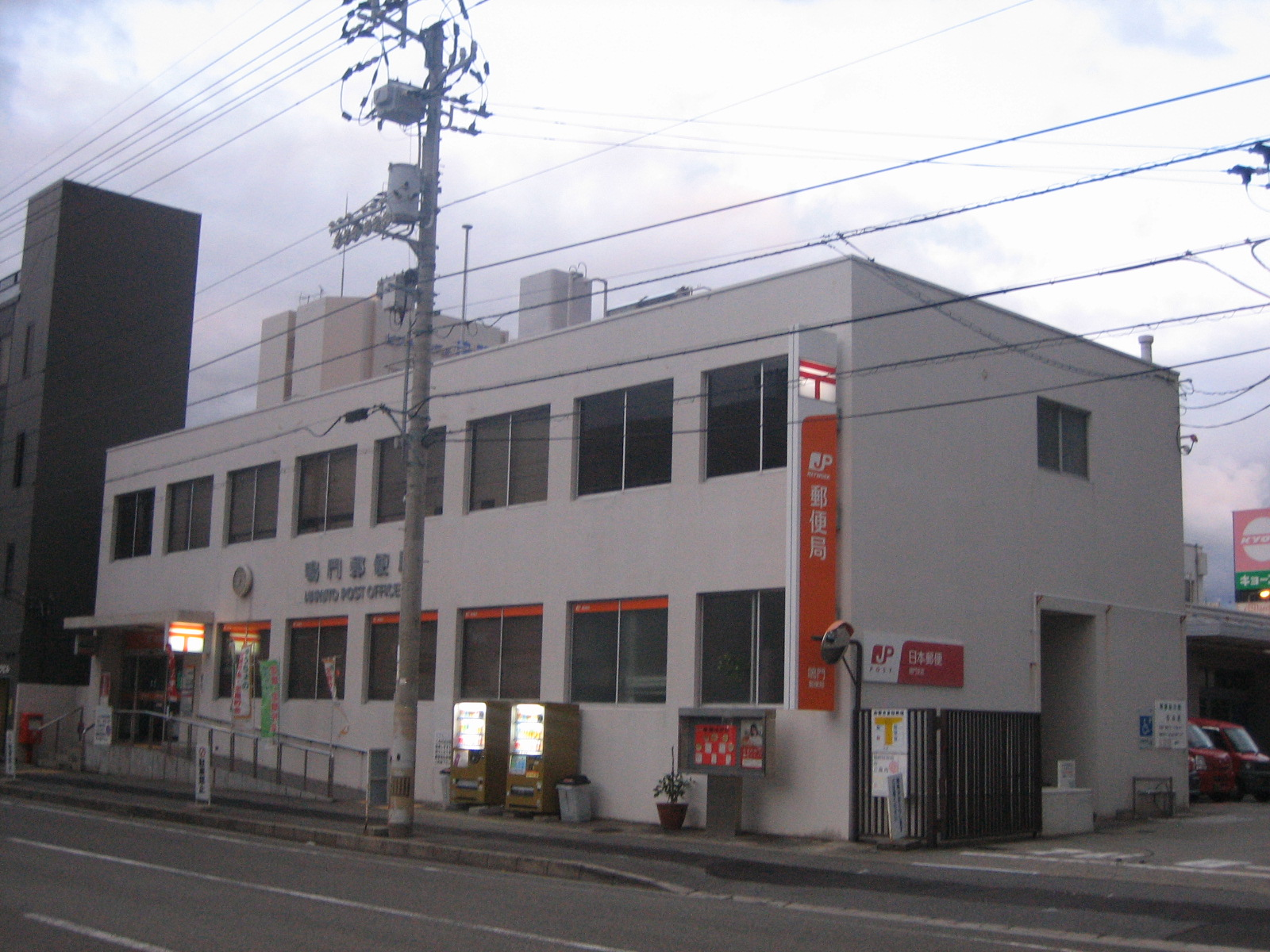 Naruto post office in Tokushima, Japan